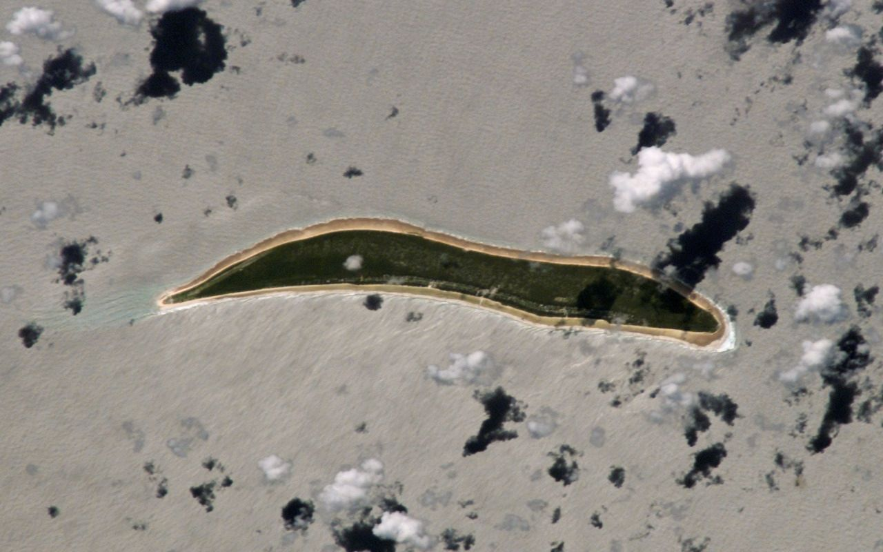 NASA astronaut image of Arorae Island, Gilbert Islands, Kiribati ISS Crew Earth Observations: ISS004-E-13352 Identification Mission ISS004 (Expedition 4) Roll E Frame 13352 Country or Geographic Name KIRIBATI Features ARORAE ISLAND, REEFS Center Point Latitude -2.5° N Center Point Longitude 177.0° E Camera Camera Tilt Low Oblique Camera Focal Length 400 mm Camera Kodak DCS760C Electronic Still Camera Film 3060 x 2036 pixel CCD, RGBG array. Quality Percentage of Cloud Cover 0-10% Nadir What is Nadir? Date 2002-04-19